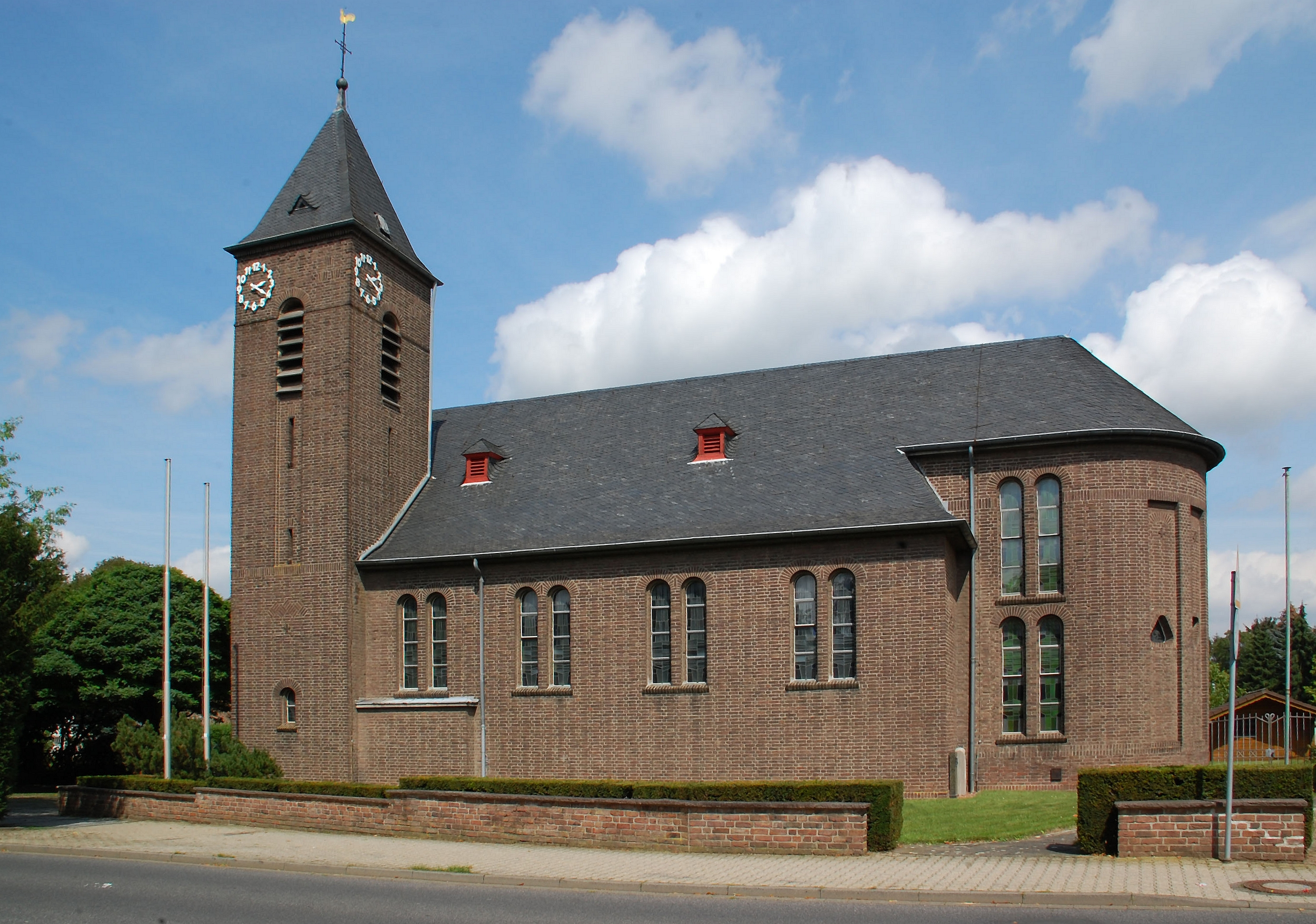 Catholic church St. Michael Ahe, BergheimThis is a photograph of an architectural monument.